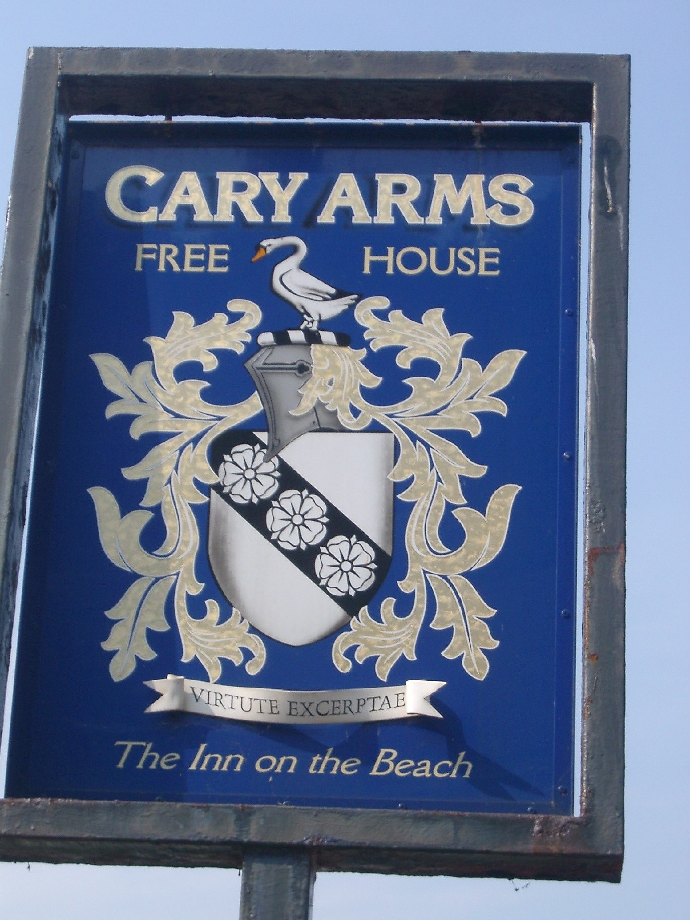 Pub sign in Babbacombe Torquay